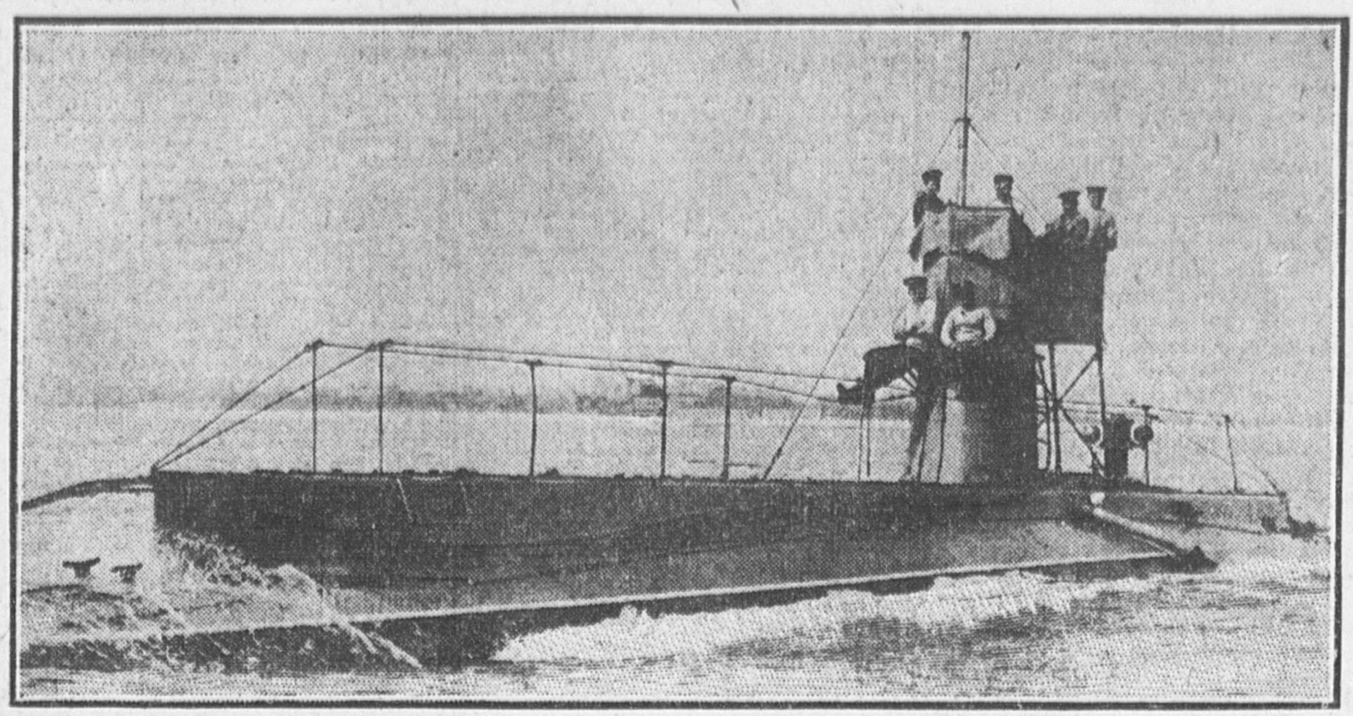 Caption:"The B-11 is 135 feet long, 313 tons displacement and carries 15 men submerged. This is the first conspicuous feat accomplished by a British submarine since the war began."